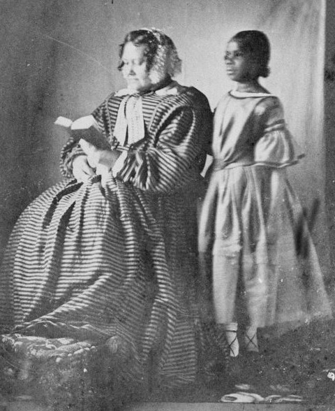 Anne Camfield and Bessie Flower from state archives 1860s.